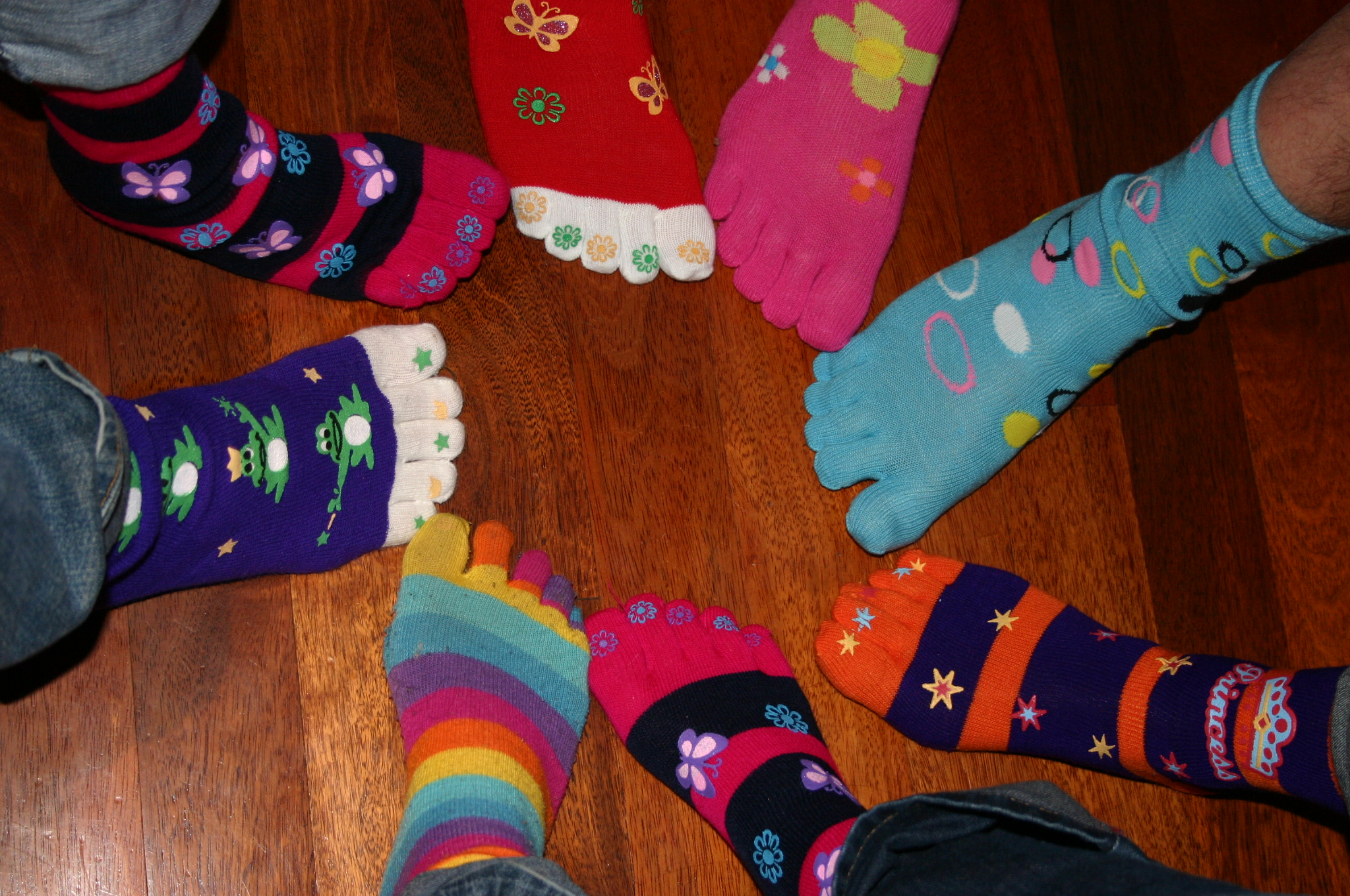 Eight girls wearing toe socks